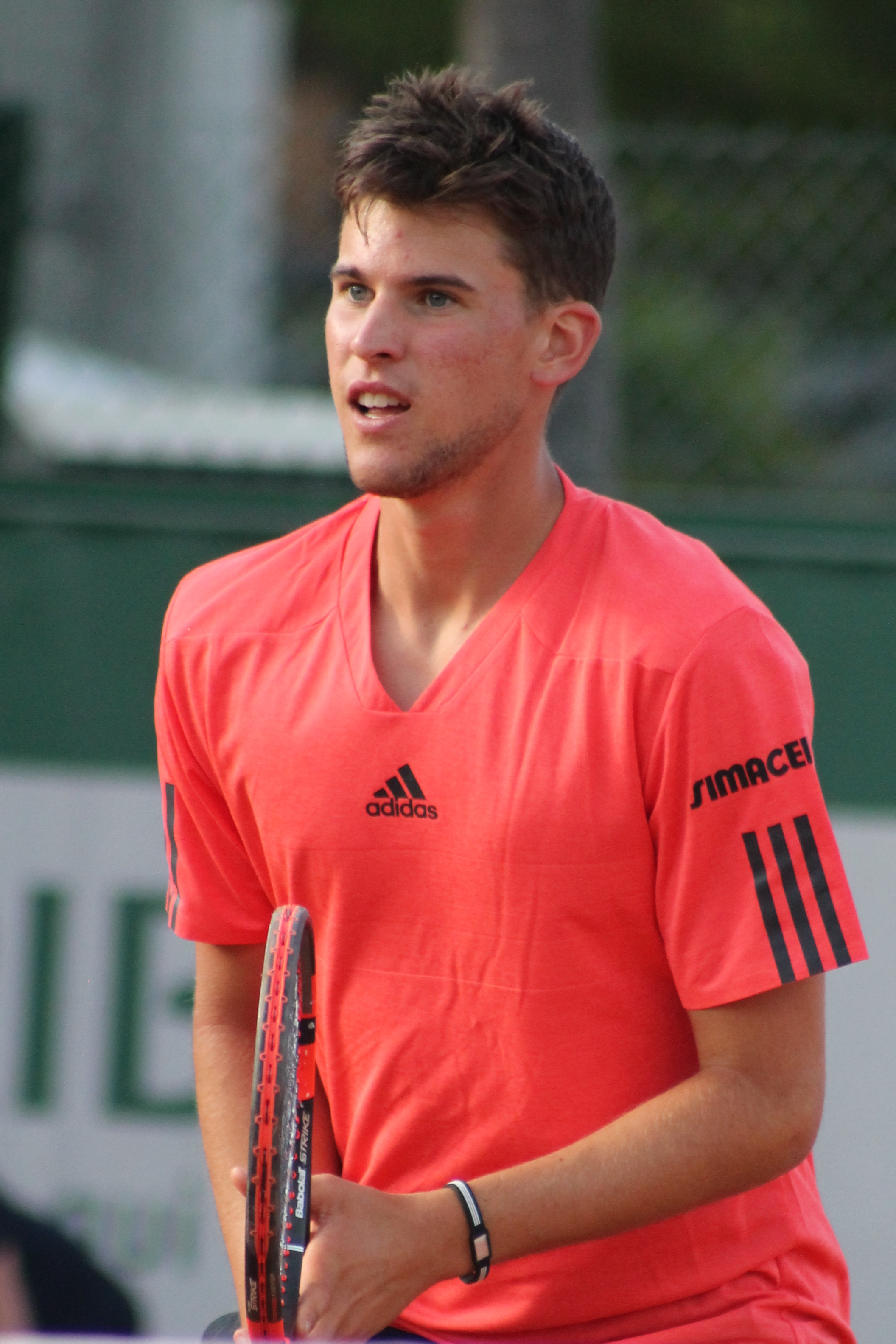 Thiem RG15 (9)